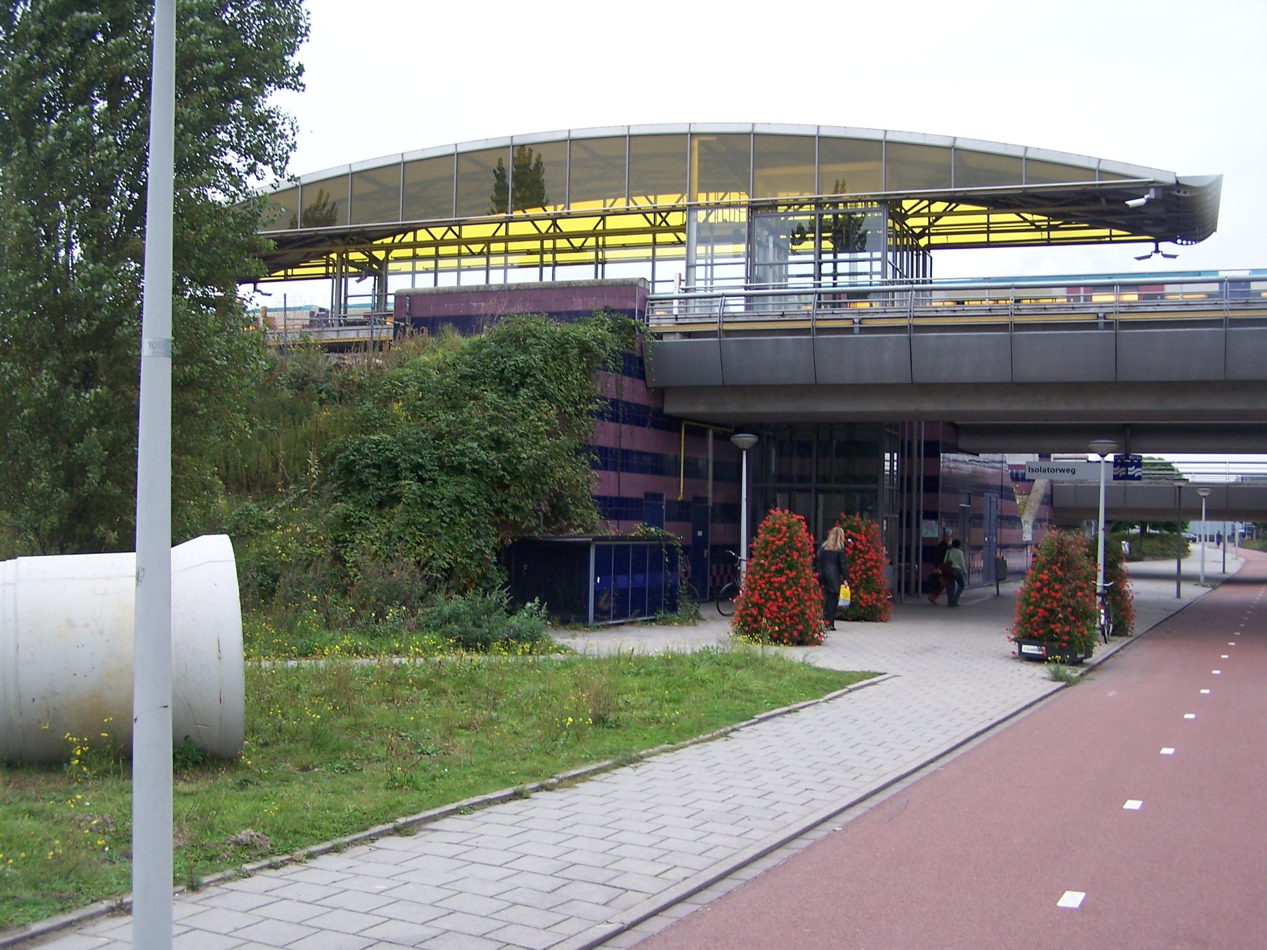 Picture by Mig de Jong This is a picture of the Amsterdam Metro station Isolatorweg. See also: Isolatorweg (metrostation)